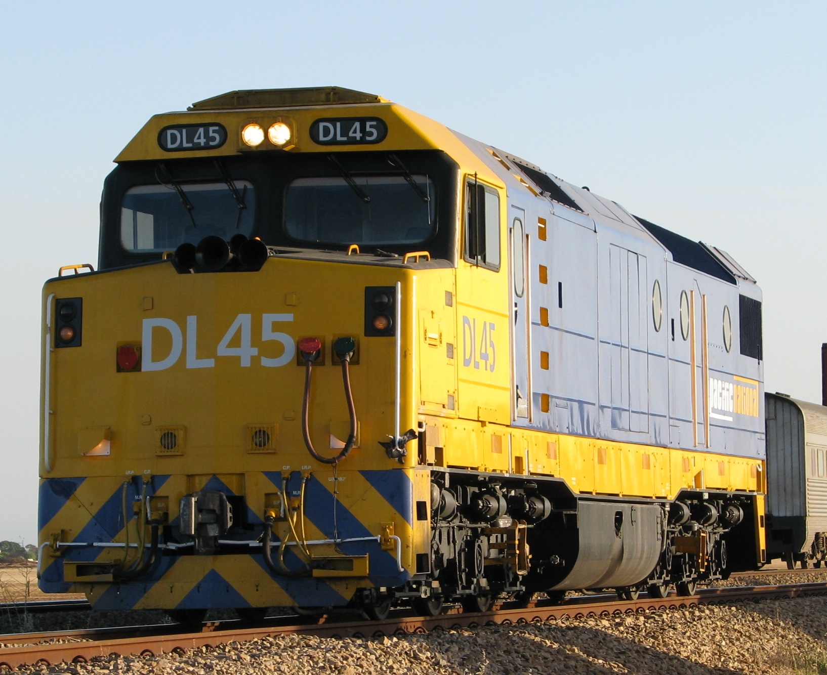 Freshly Painted, DL45 sits in the loop at Two Wells, South Australia in 2007.